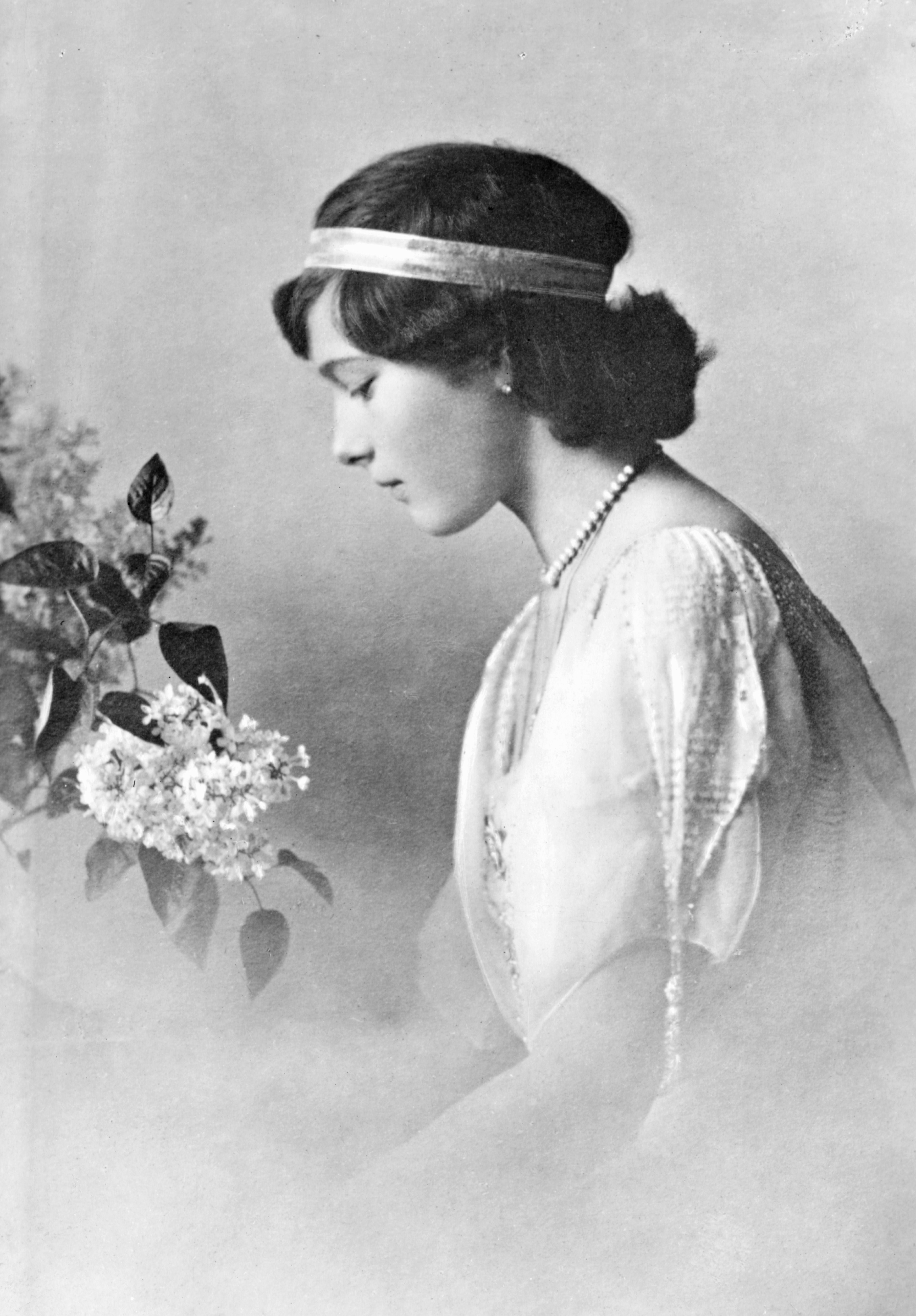 This formal portrait of Grand Duchess Tatiana Nikolaevna of Russia is from 1914 and was featured on postcards during World War I. Because of its age, I think it's likely in the public domain.